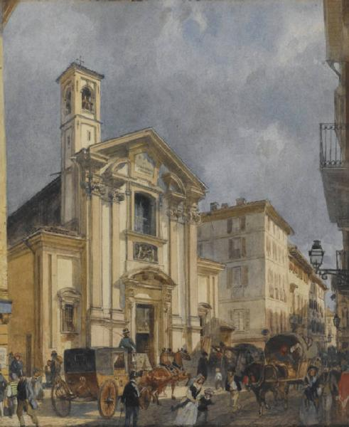 Paint of the demolished church of San Giovanni Laterano, Milan. Riccardo Luigi, 1850 ca